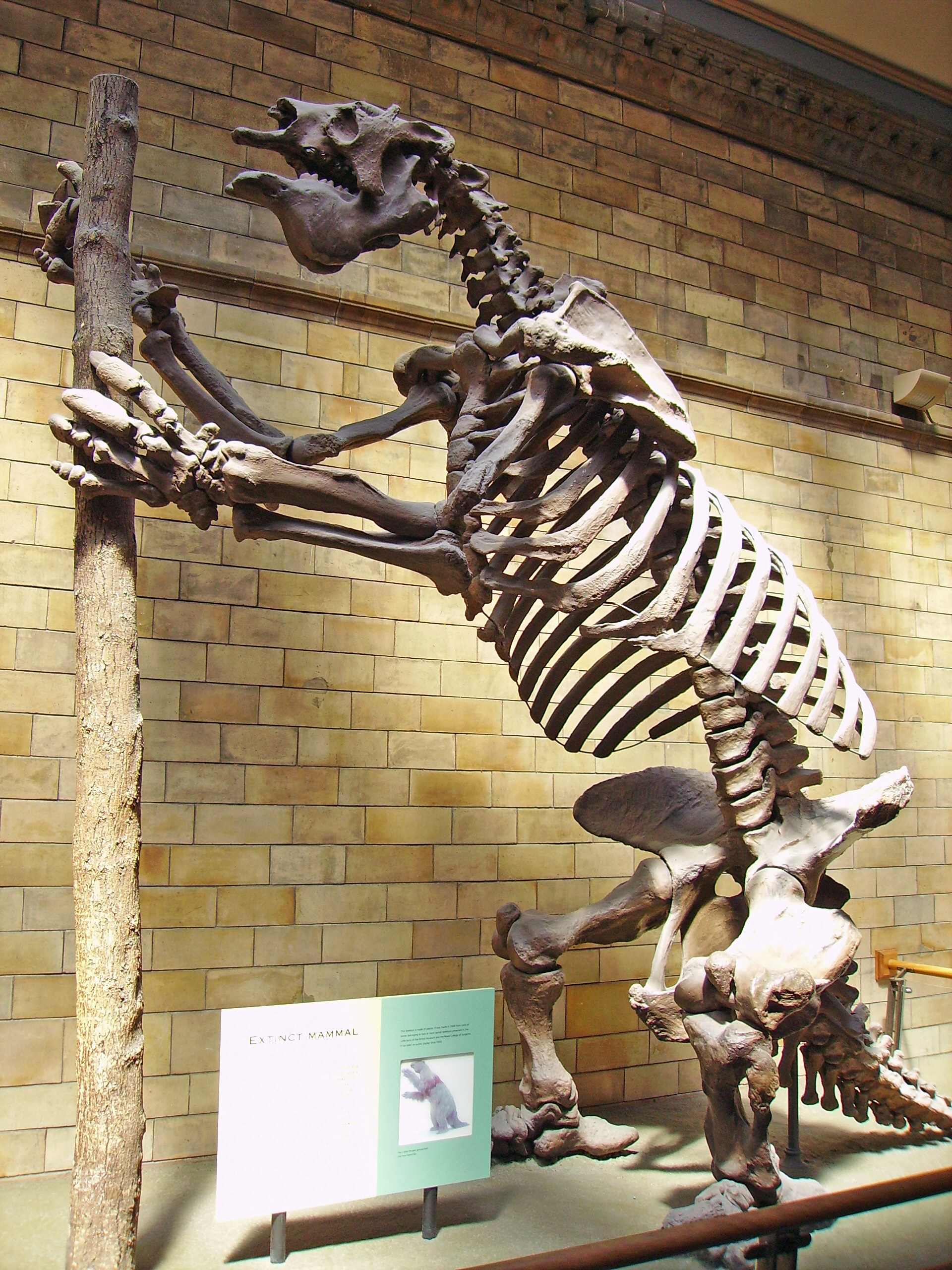 Megatherium americanum skeleton, Natural History Museum, London